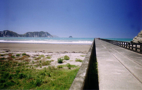 New Zealand's longest wharf, at Tolaga Bay (photography by James Dignan)